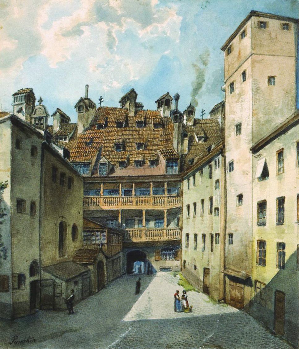 Löwenturm (lions tower in Munich